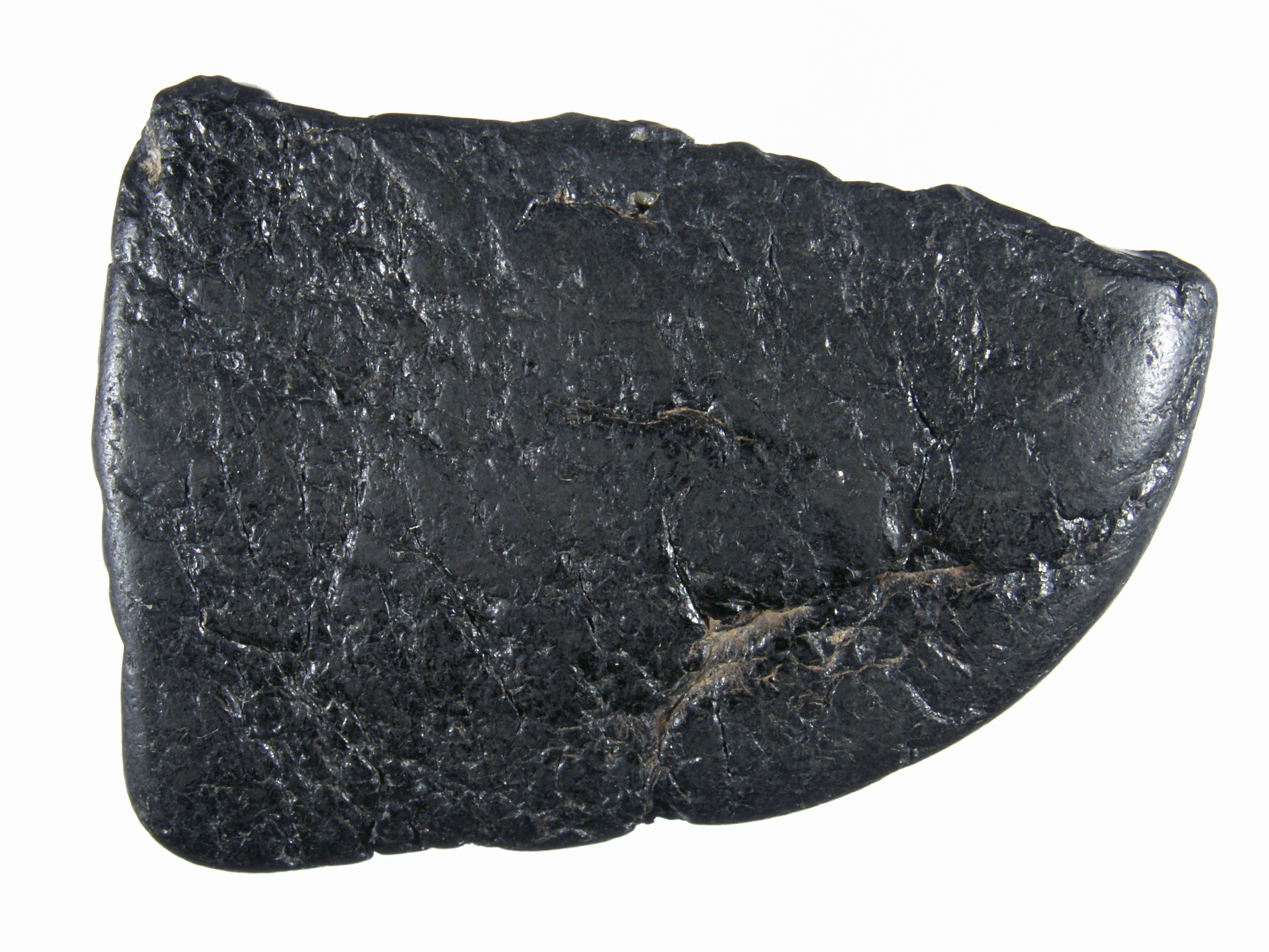 Amber from Bitterfeld, pseudostantienite